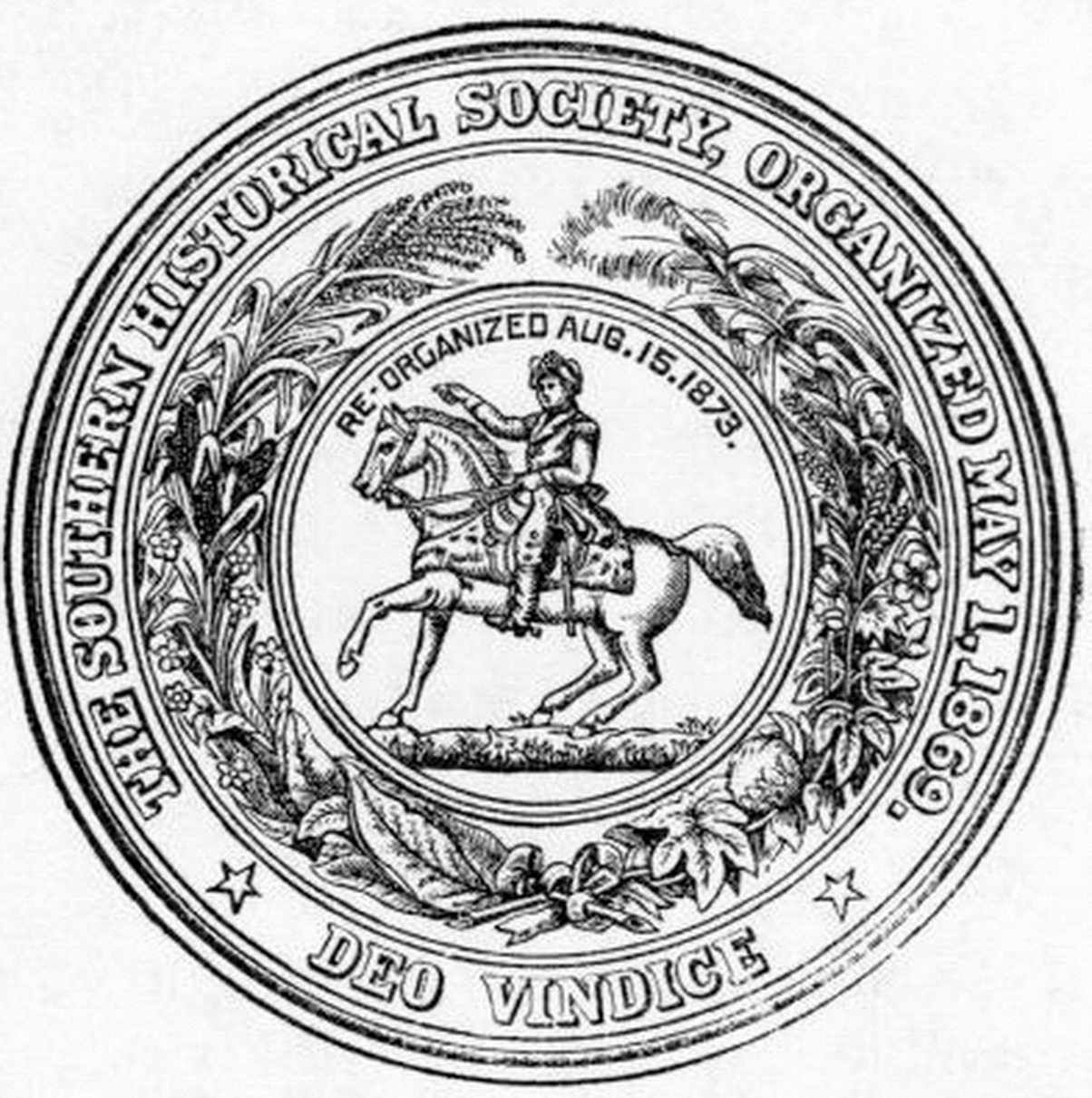 The Southern Historical Society's Seal and Motto created after the American Civil War.